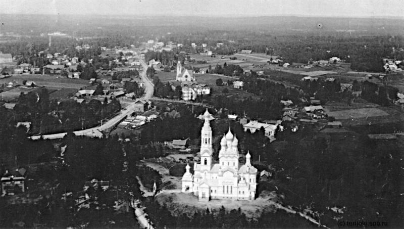 Zelenogorsk (Russia)